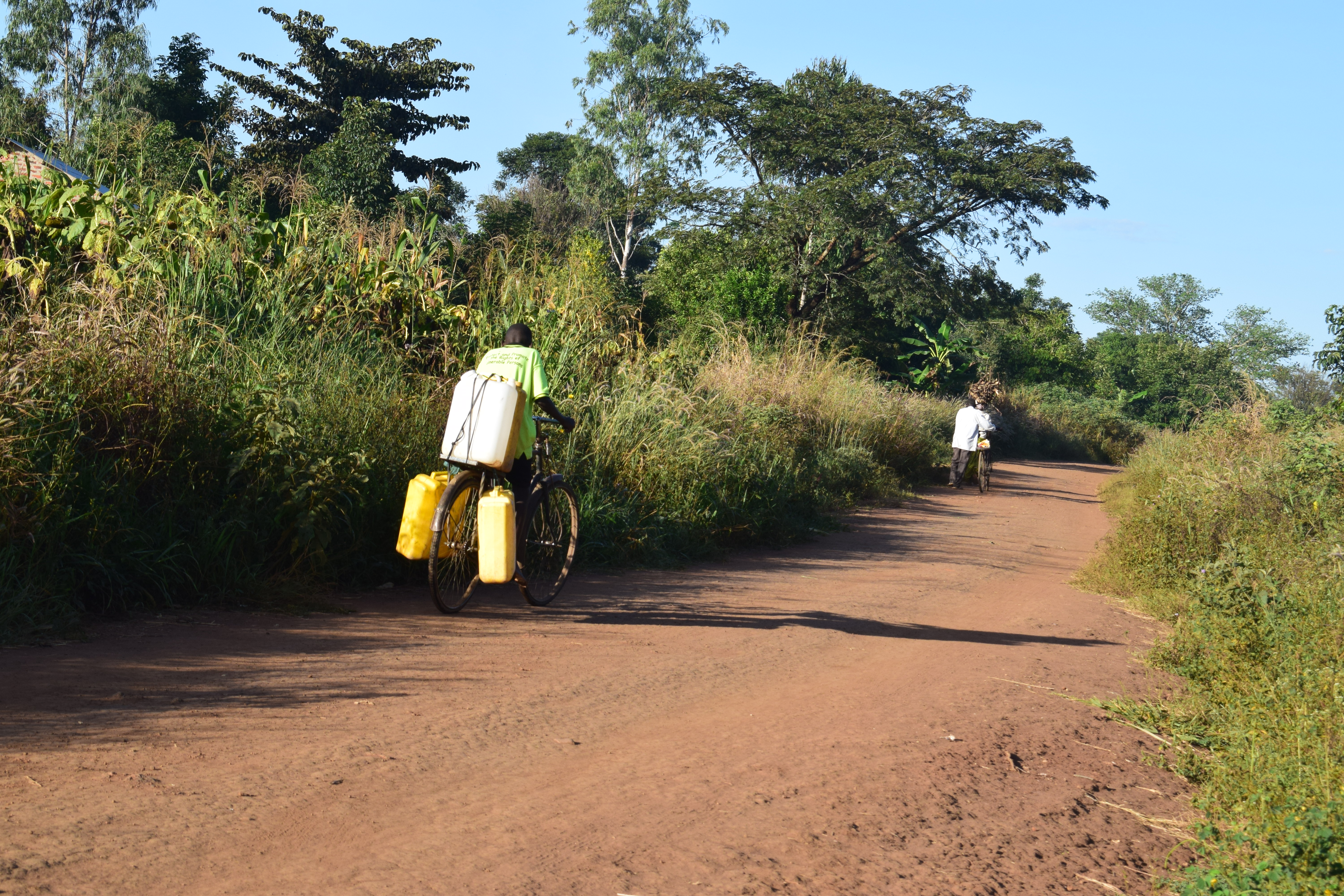 A lonely Murram road in Oyam district This is an image with the theme "Africa on the Move or Transport" from: Uganda